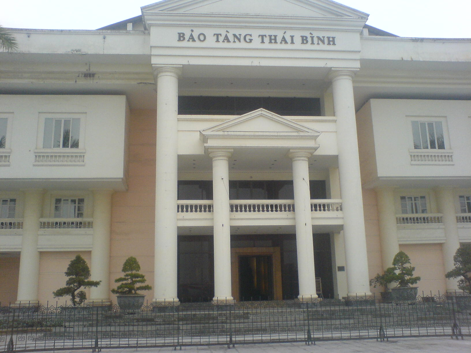 The front of Thai Binh Museum